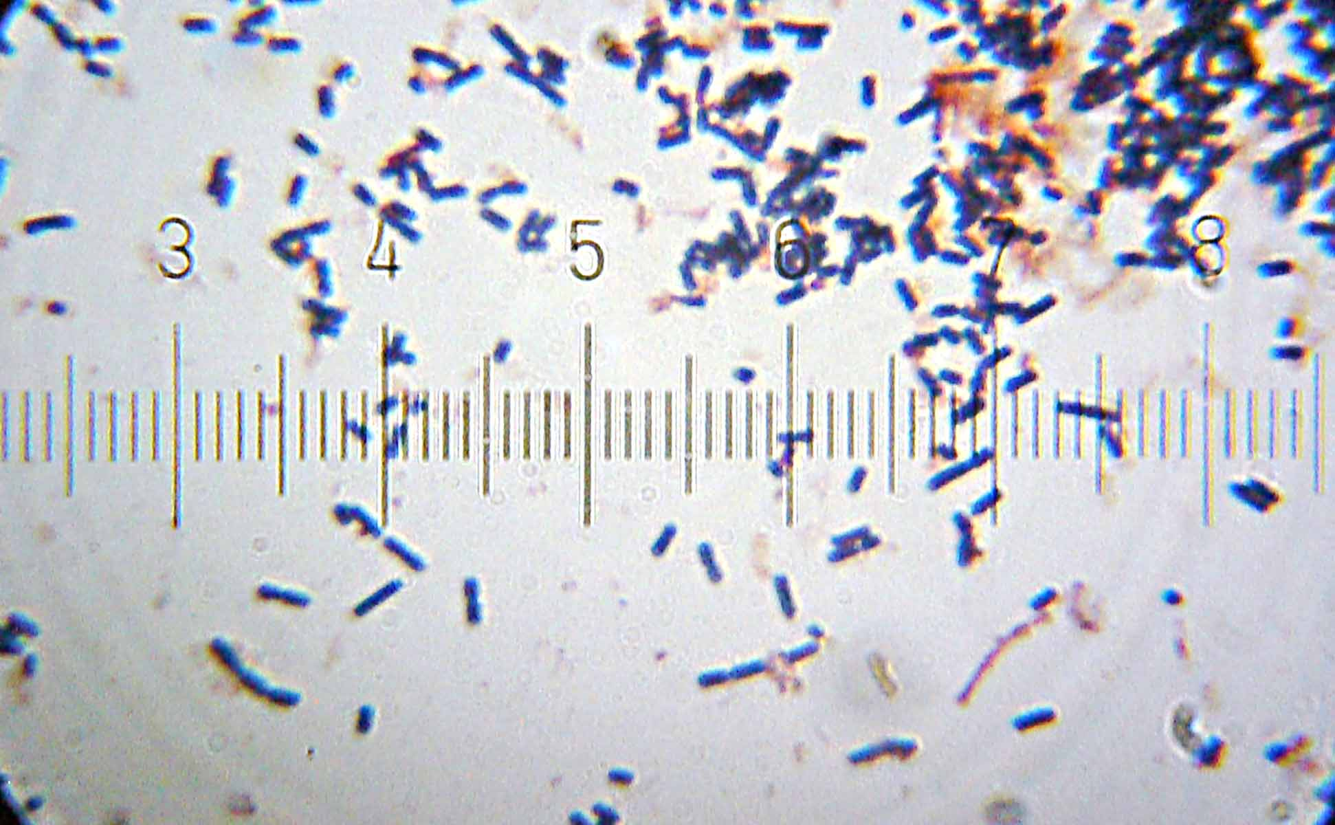 Lactobacillus acidophilus from a commercially-sold nutritional supplement tablet. 100× objective, 15× eyepiece; numbered ticks are 11 µM apart. Gram stained. The scale of the full-sized version of this image is such that each pixel is a 0.038-µM square.